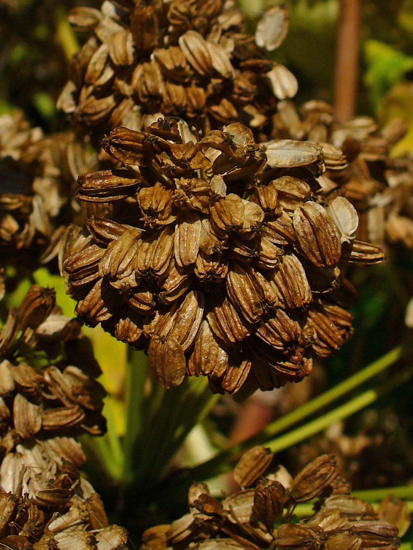 Angelica archangelica, Apiaceae, Garden Angelica, fruits; Karlsruhe, Germany. The root is used in homeopathy as remedy: Angelica archangelica (Ange-a.)